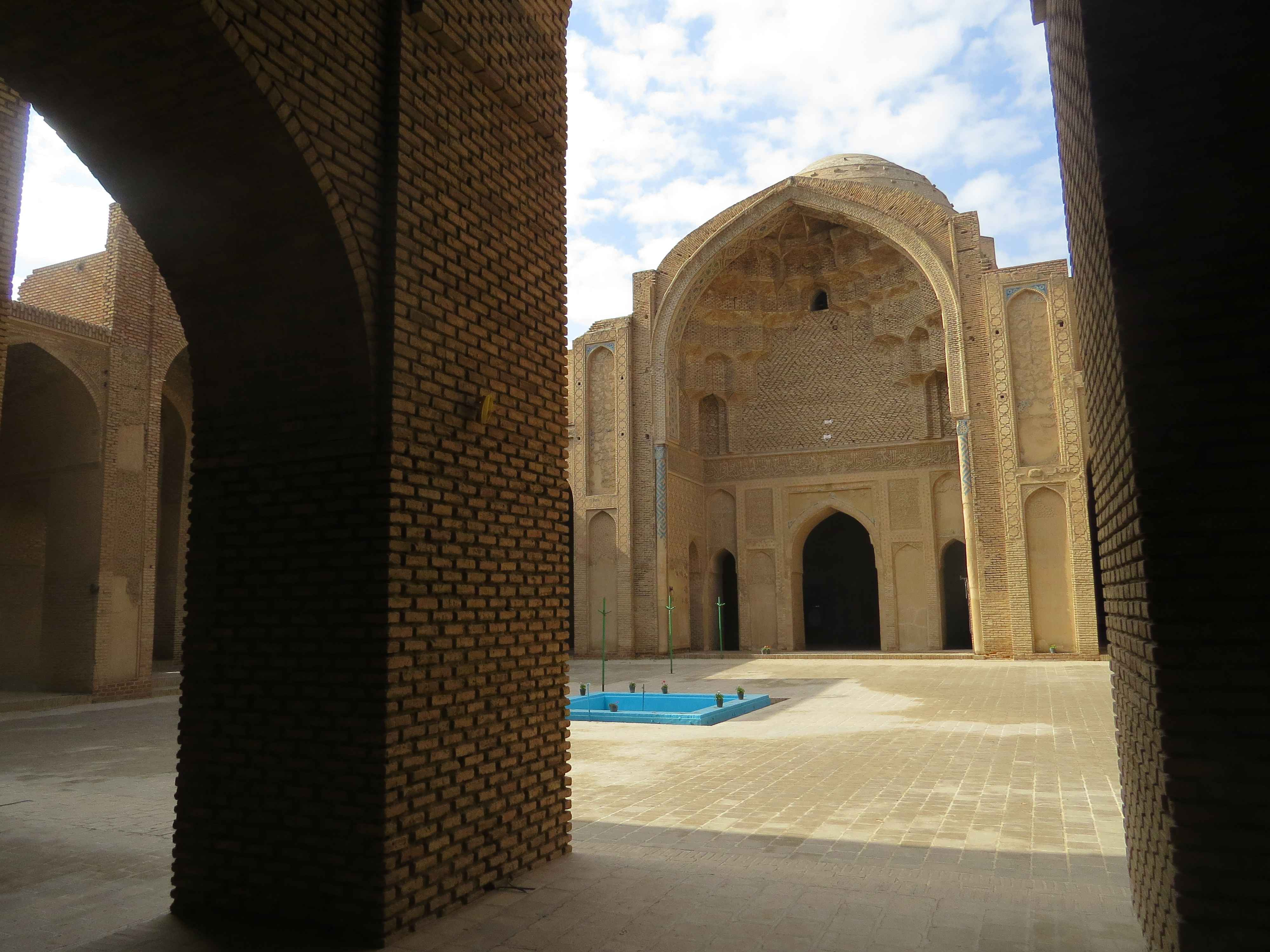 Interior courtyard of Varamin Grand Mosque.